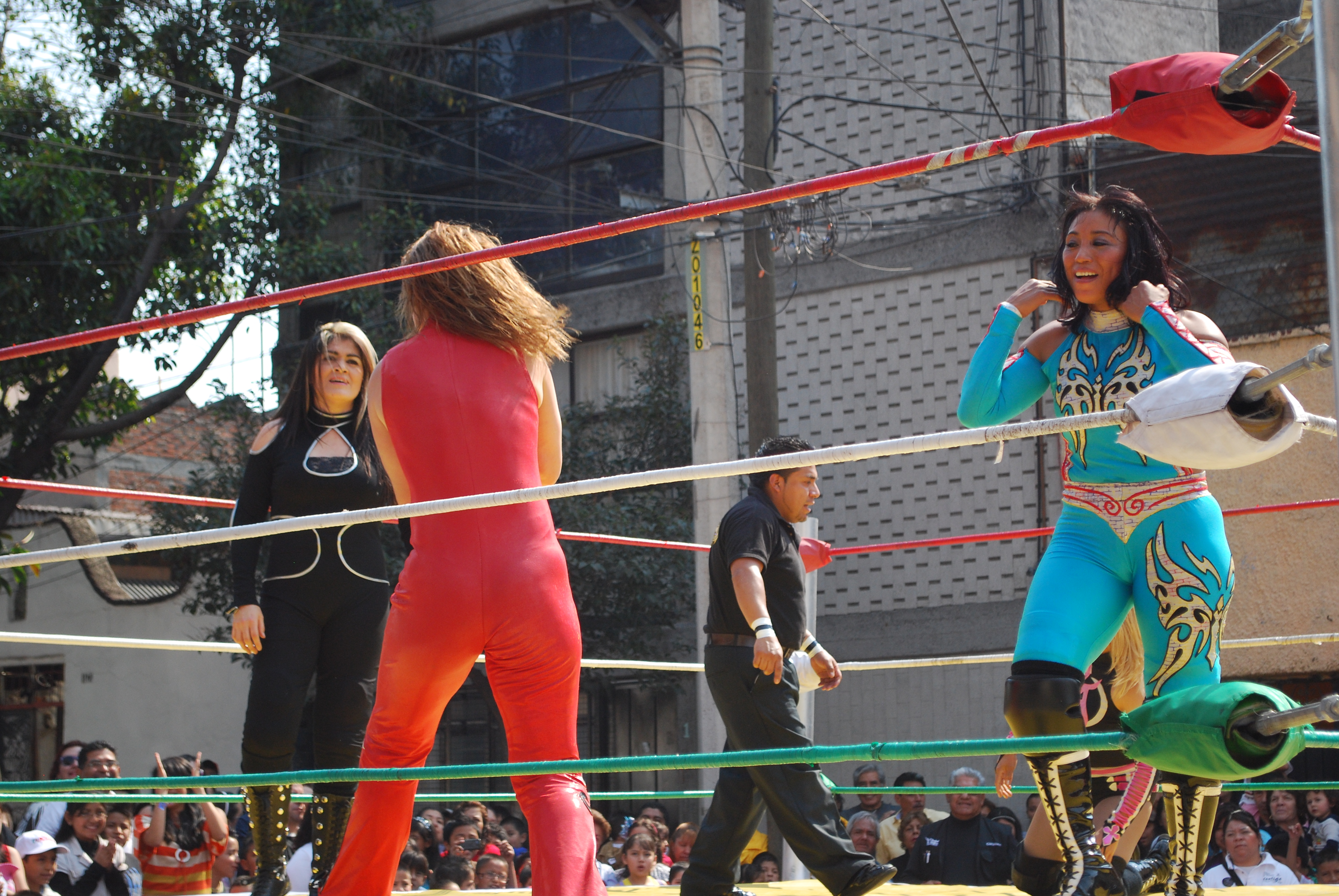 Female lucha libre wrestlers performing at the Festival Día de Reyes Territorial Obrera Doctores in Mexico City